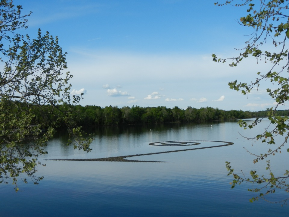 Spiral Wetland by Stacy Levy is an outdoor eco-art project supported by the Walton Art Center as part of the Artosphere Festival in Fayetteville, Arkansas.